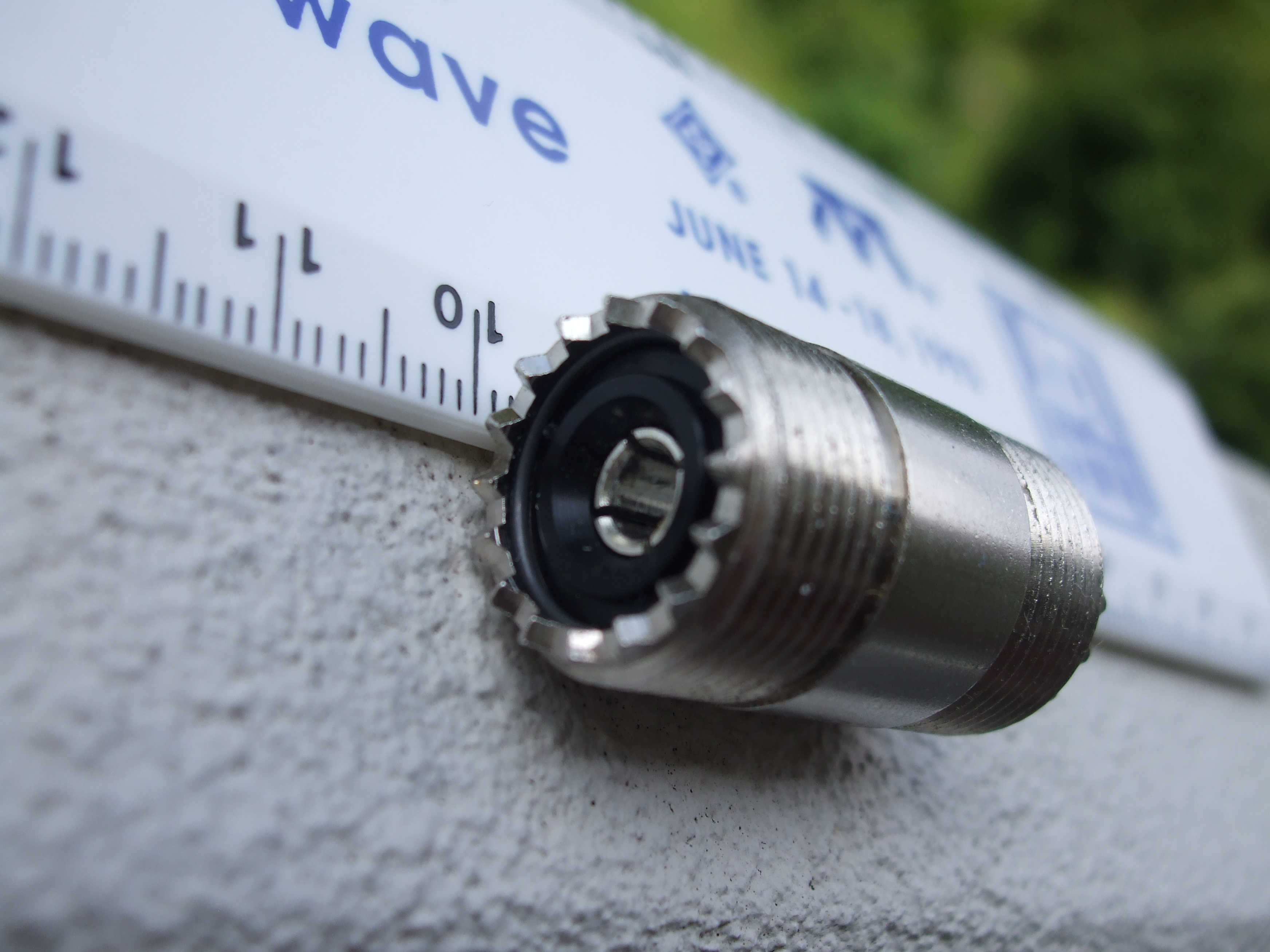 UHF adapter (jack to jack)